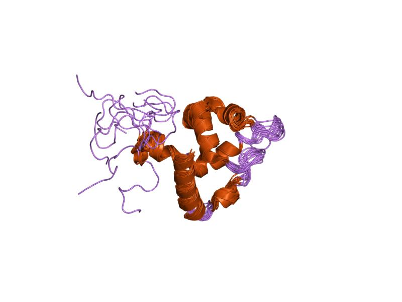 Cartoon representation of the molecular structure of protein registered with 1ig6 code.